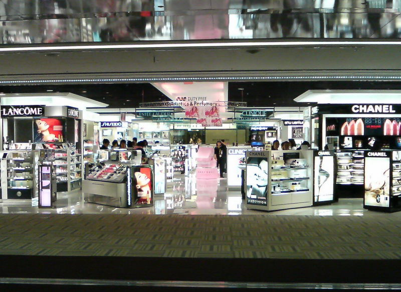 Narita 5th Avenue. after passport control, 3F, Main Bldg., Terminal2, Narita Airport., Narita.